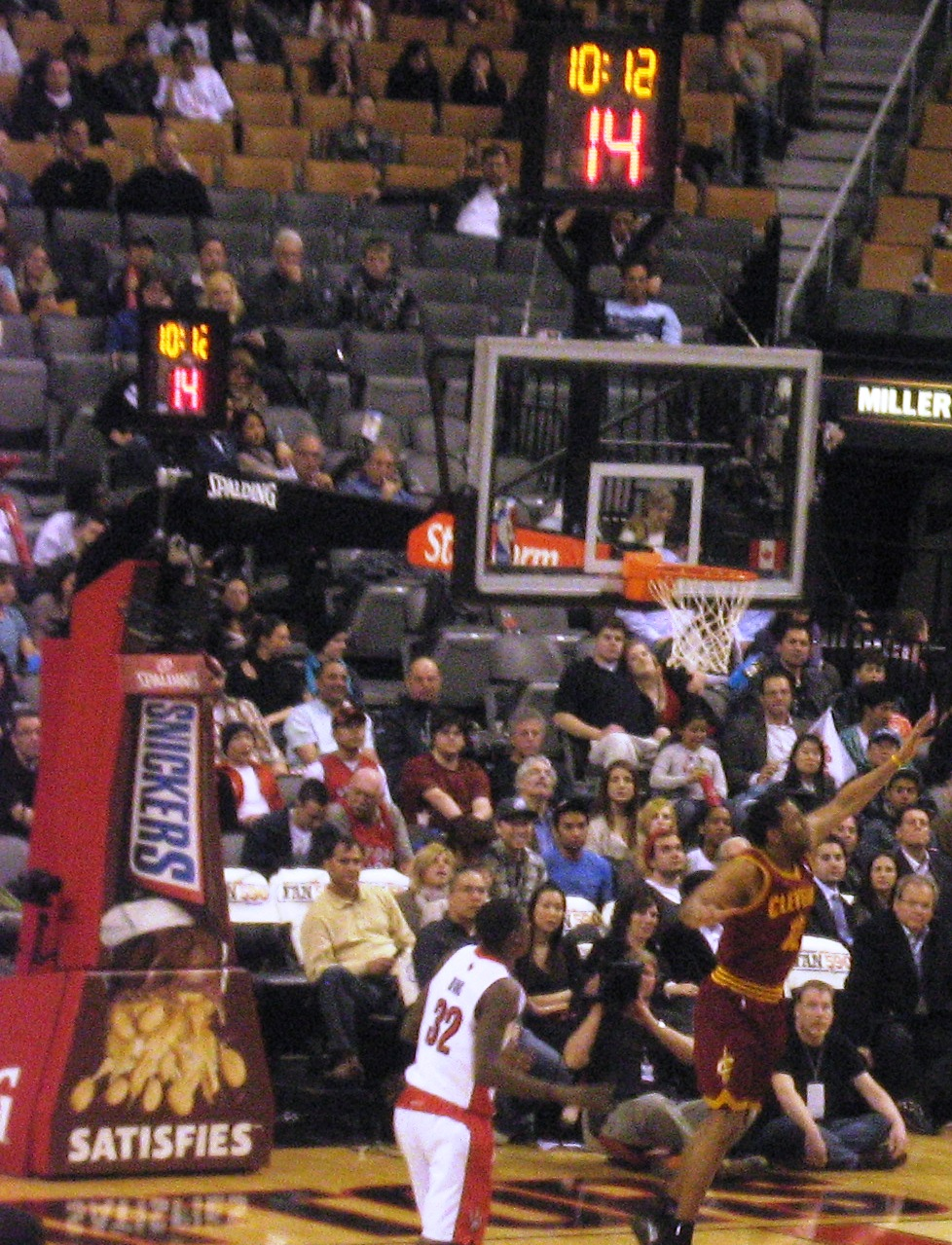 Cavaliers at Raptors game 104-96, Toronto, Wednesday, April 6, 2011